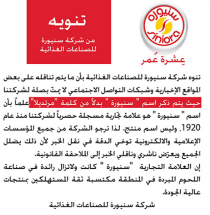 Screenshot of the welcoming prompt on Siniora's website alerting the viewer that the word Siniora had become synonymous with the word Mortadella, and warns that any allegation about "Siniora" can mean Mortadella in general.